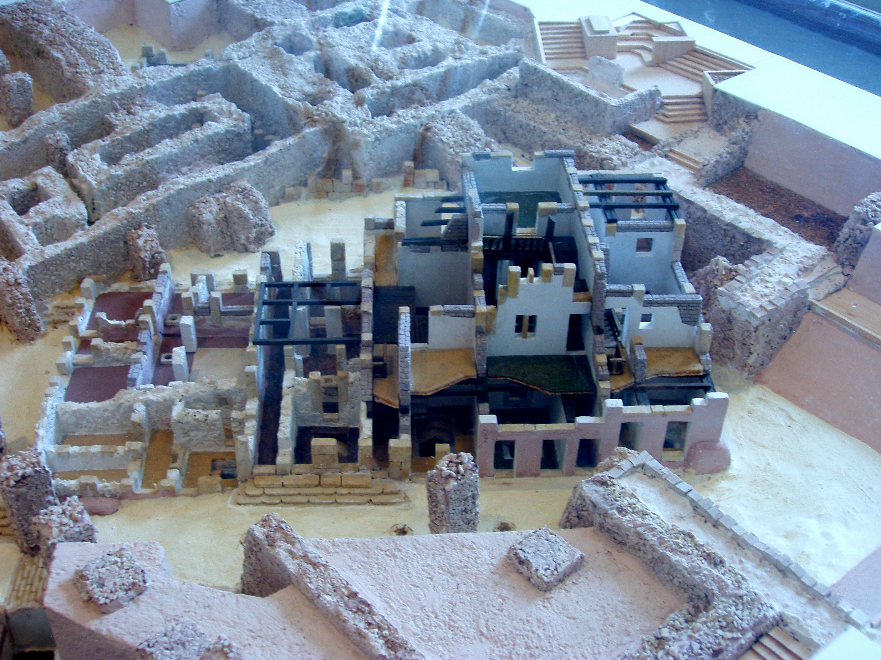 Punic ruins shown at the Carthage National Museum